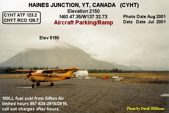 Taxiway, Haines Junction airport, Yukon